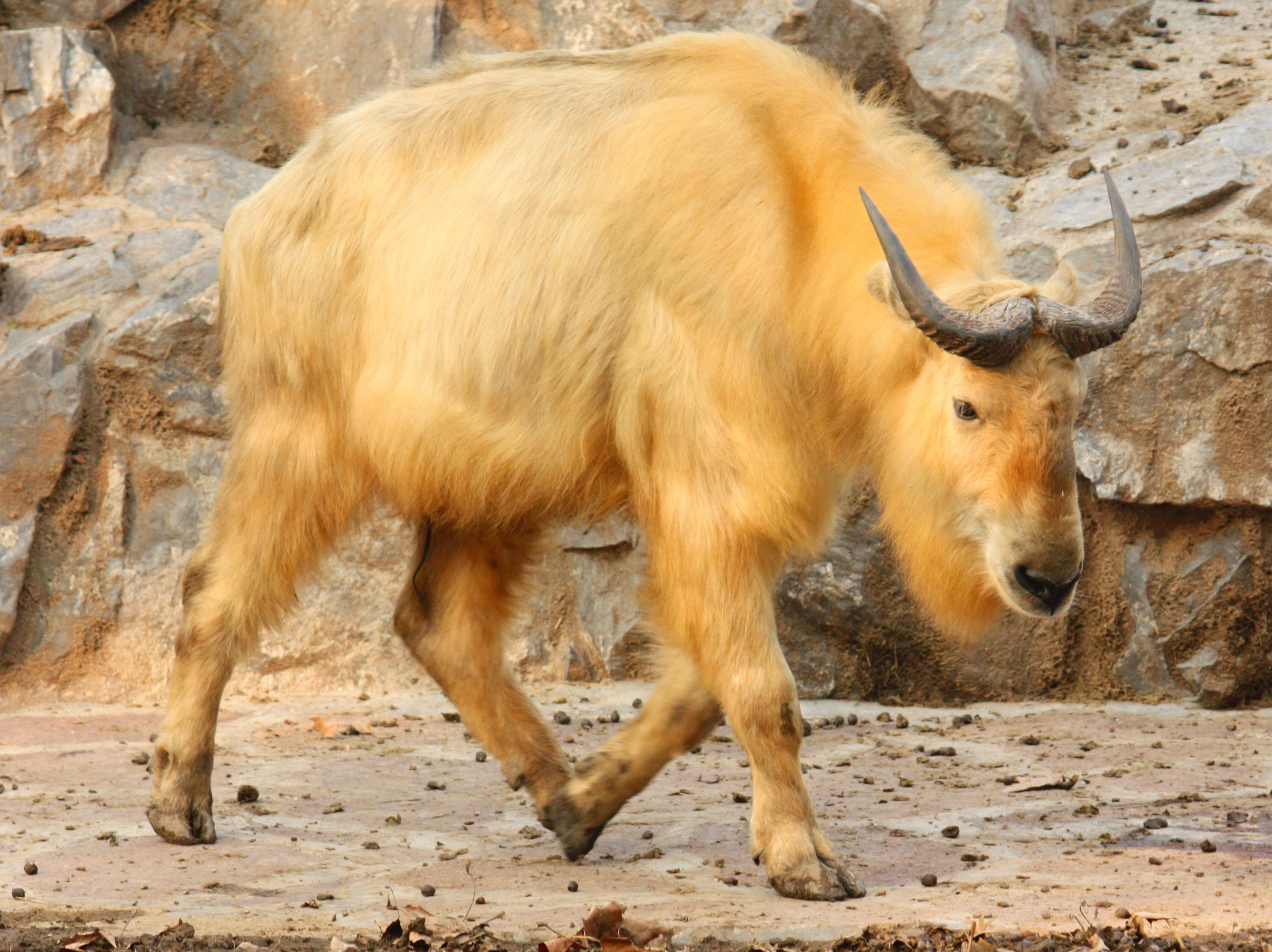 Budorcas taxicolor bedfordi in Shanghai Zoo